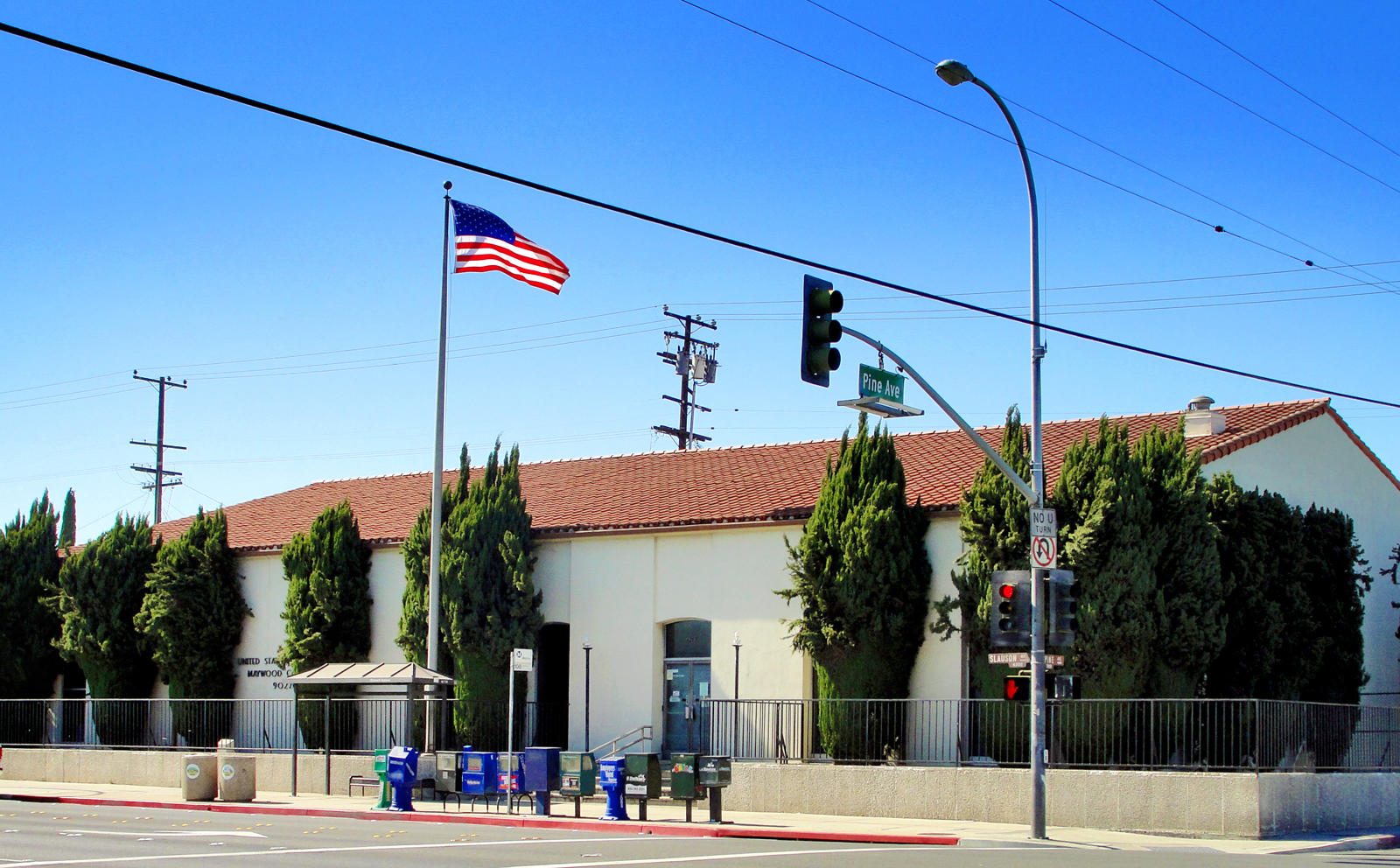 United States Postal Office in Maywood, CA